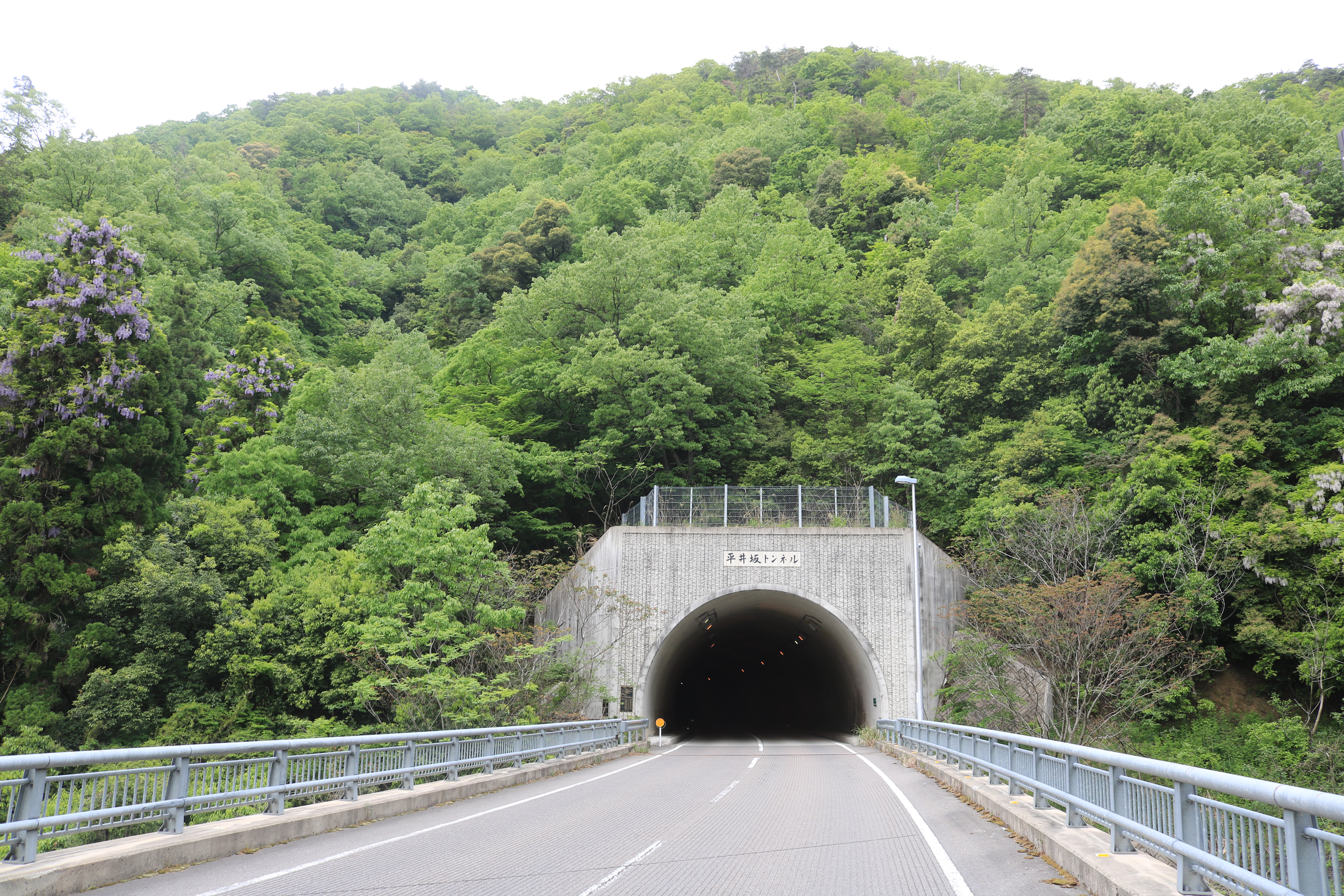 Hiraizaka Tunnel of Gifu Prefectural Road Route 91 in Hirai, Yamagata, Gifu prefecture, Japan.